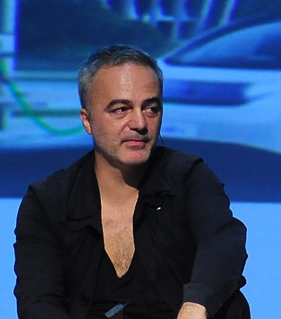 swissnex China